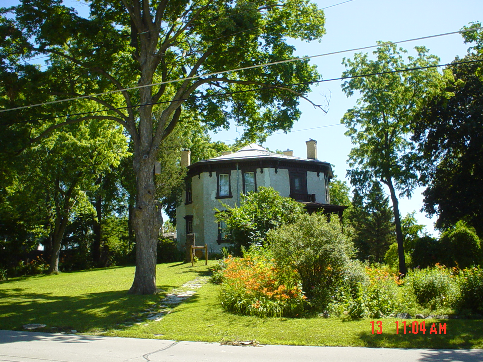 MagRyan,370 High Street, Morning on High Street